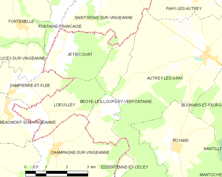 Map of French municipality